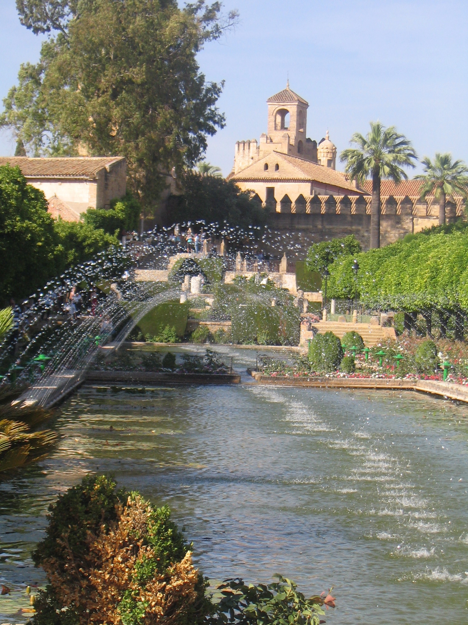 Garden fountain at Alcázar de los Reyes Cristianos (Alcazar of Córdoba) in Córdoba, Spain. Towers of the Alcazar seen through the fountain of the Alcazar gardens.